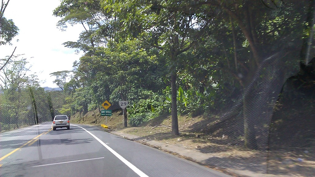 Armadillo Crossing on Colombian National Route 29